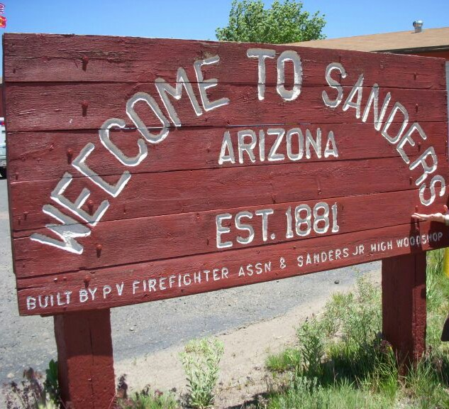 welcome sign into Sanders AZ